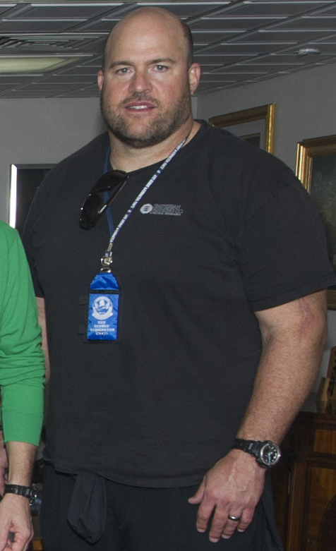 160311-N-MY901-058 ATLANTIC OCEAN (March 11, 2016) —From left to right, New York Jets offensive lineman Brent Qvale, Command Master Chief James Tocorzic, New York Jets offensive lineman Ben Ijalana, Commanding Officer Capt. Timothy C. Kuehhas and retired NFL offensive guard Brenden Stai pose for photo in the commanding officer's in-port cabin aboard the aircraft carrier USS George Washington (CVN 73). Washington is homeported in Norfolk after serving seven years in Yokosuka, Japan, as the U.S. Navy’s only forward-deployed aircraft carrier. (U.S. Navy photo by Mass Communication Specialist Seaman Apprentice Krystofer N. Belknap/Released)